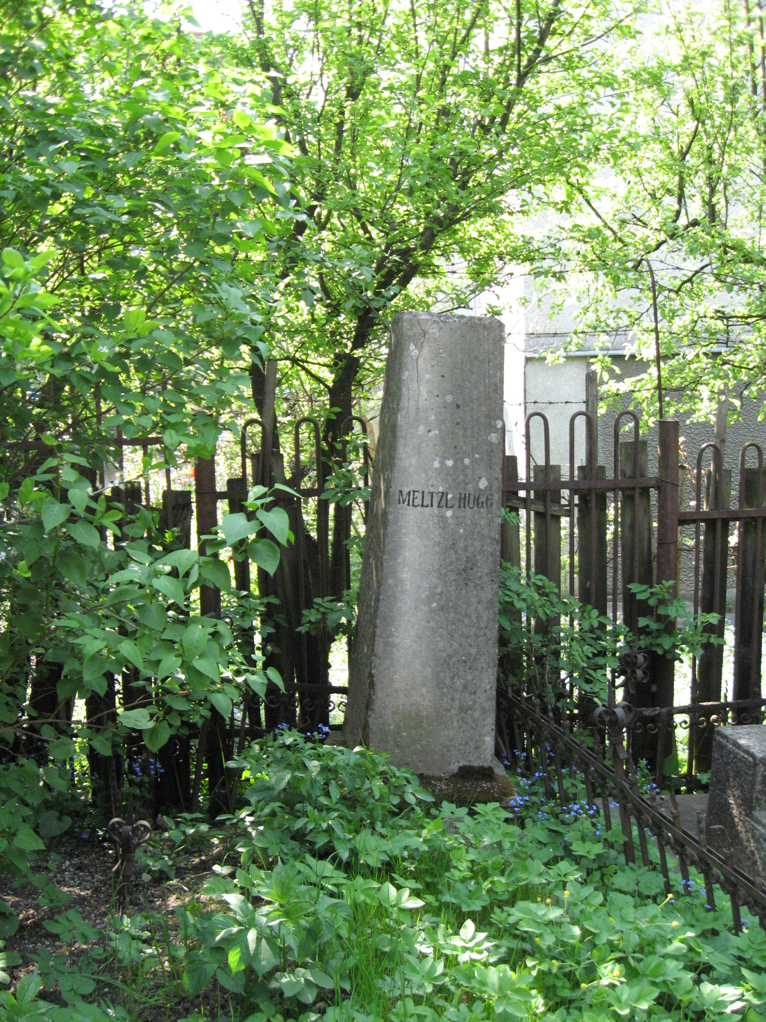 Házsongárdi temető: Meltzl Hugo sírja